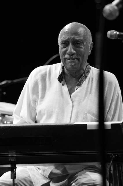 Mulatu Astatke performing live on Druga godba Festival in Ljubljana, SloveniaSlovenščina: Mulatu Astatke na festivalu Druge Godbe v Ljubljani